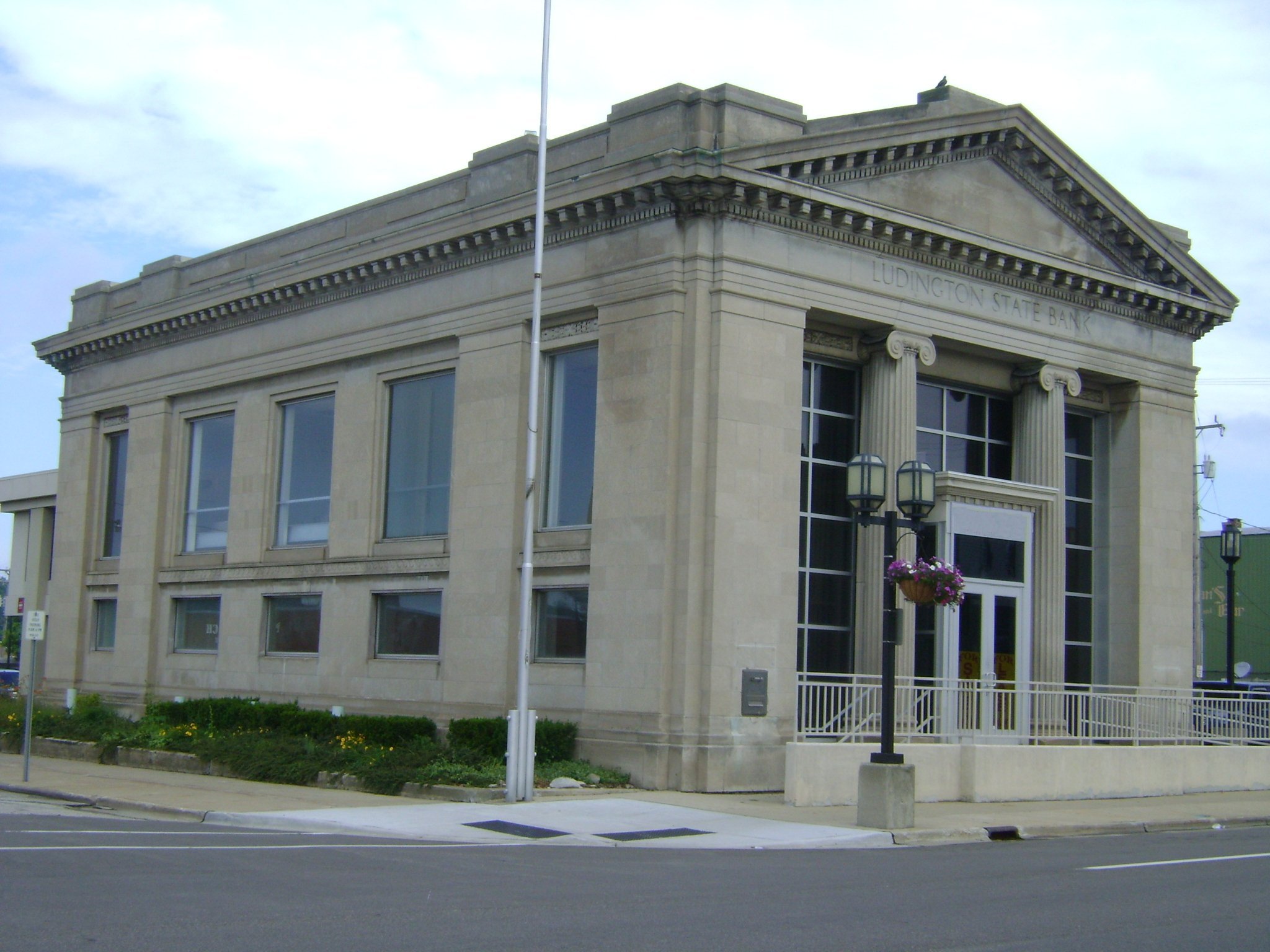 Ludington State Bank